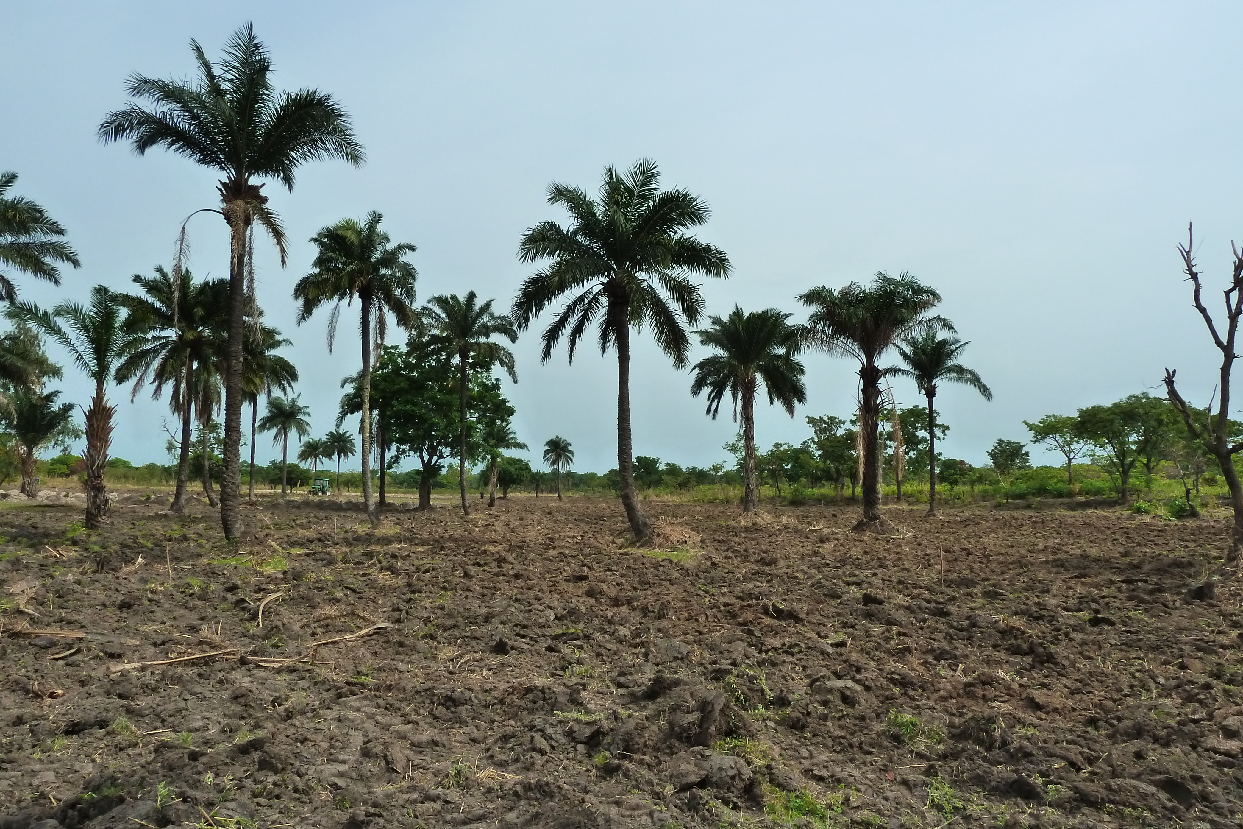 Inland valley rice cultivation in Benin